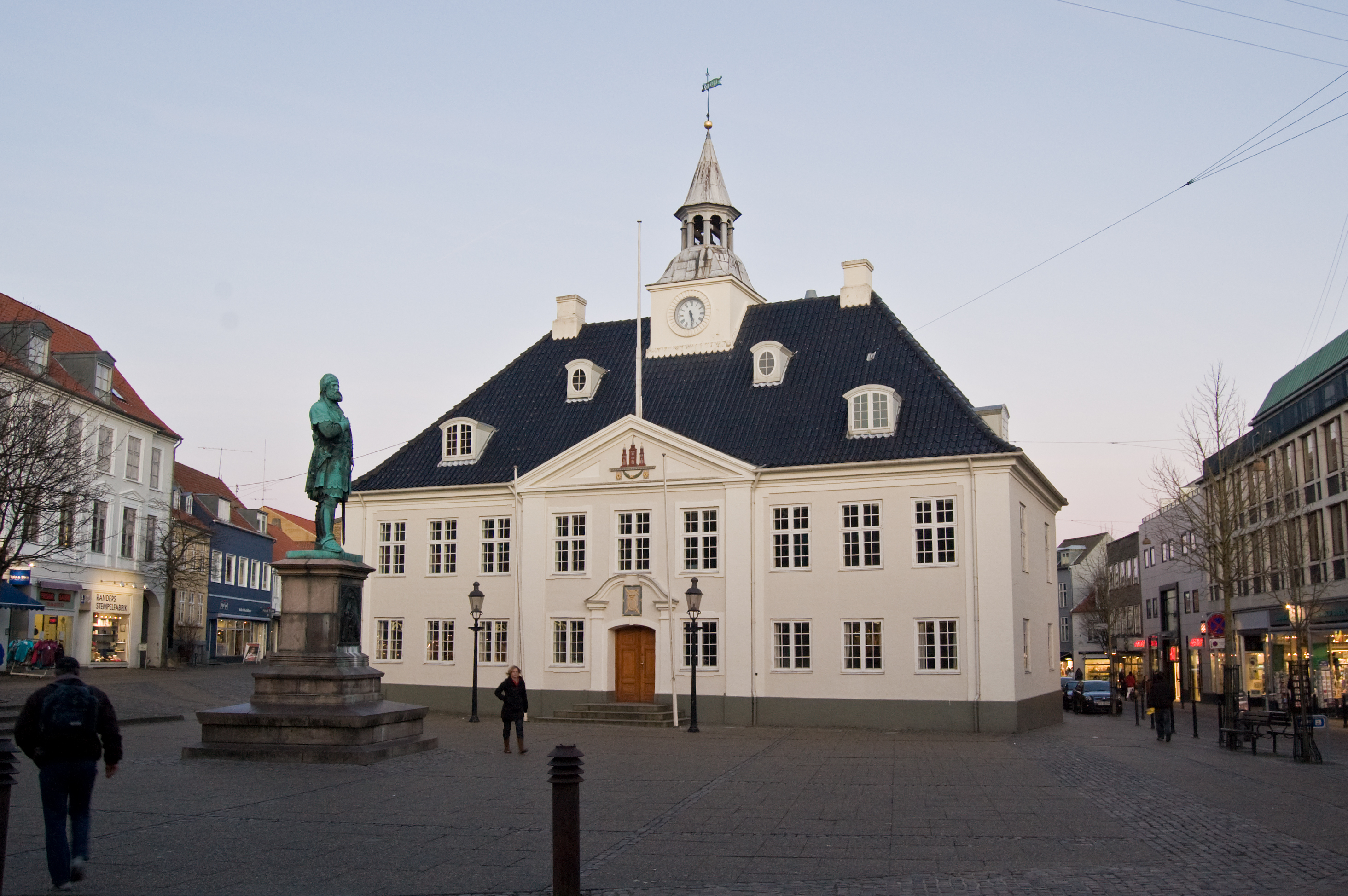 The old Town Hall in Randers by the pedestrian area in town.